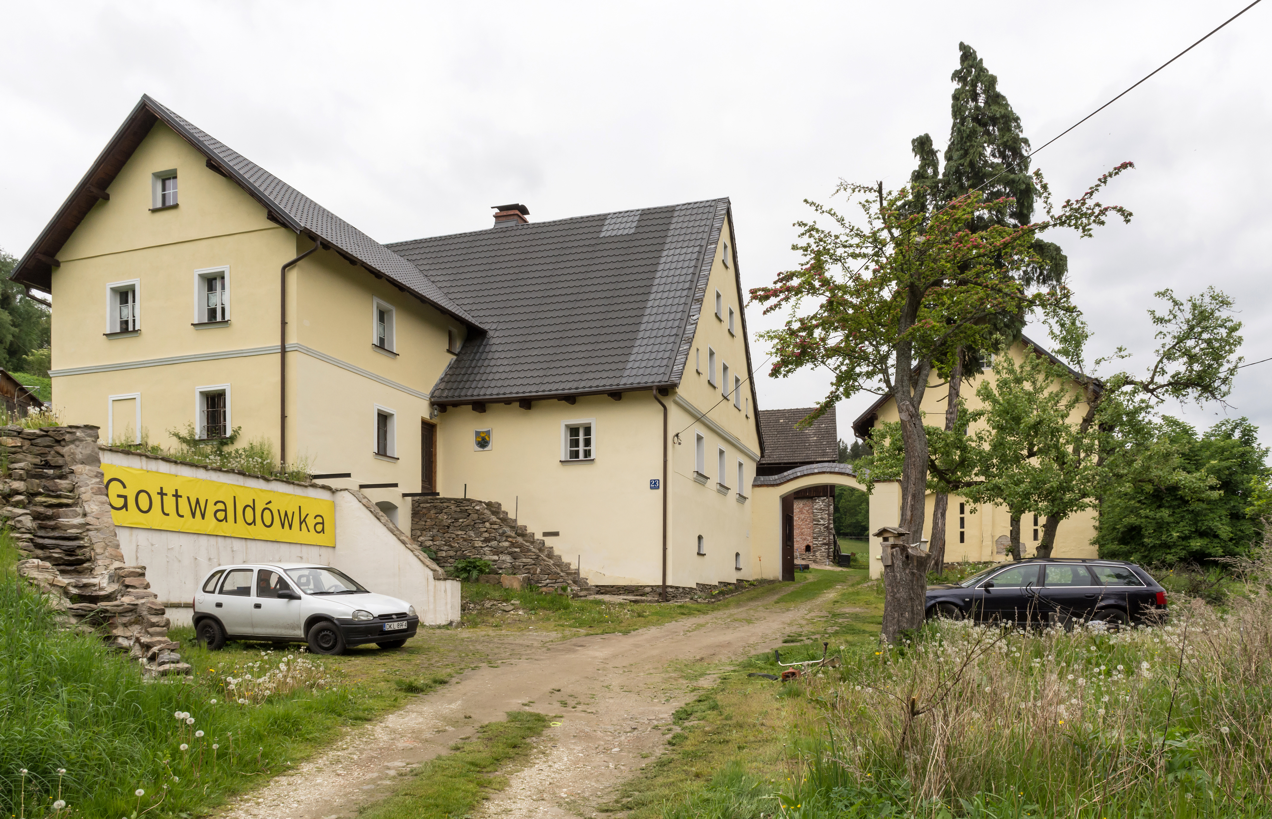 Gottwaldówka in Kąty Bystrzyckie